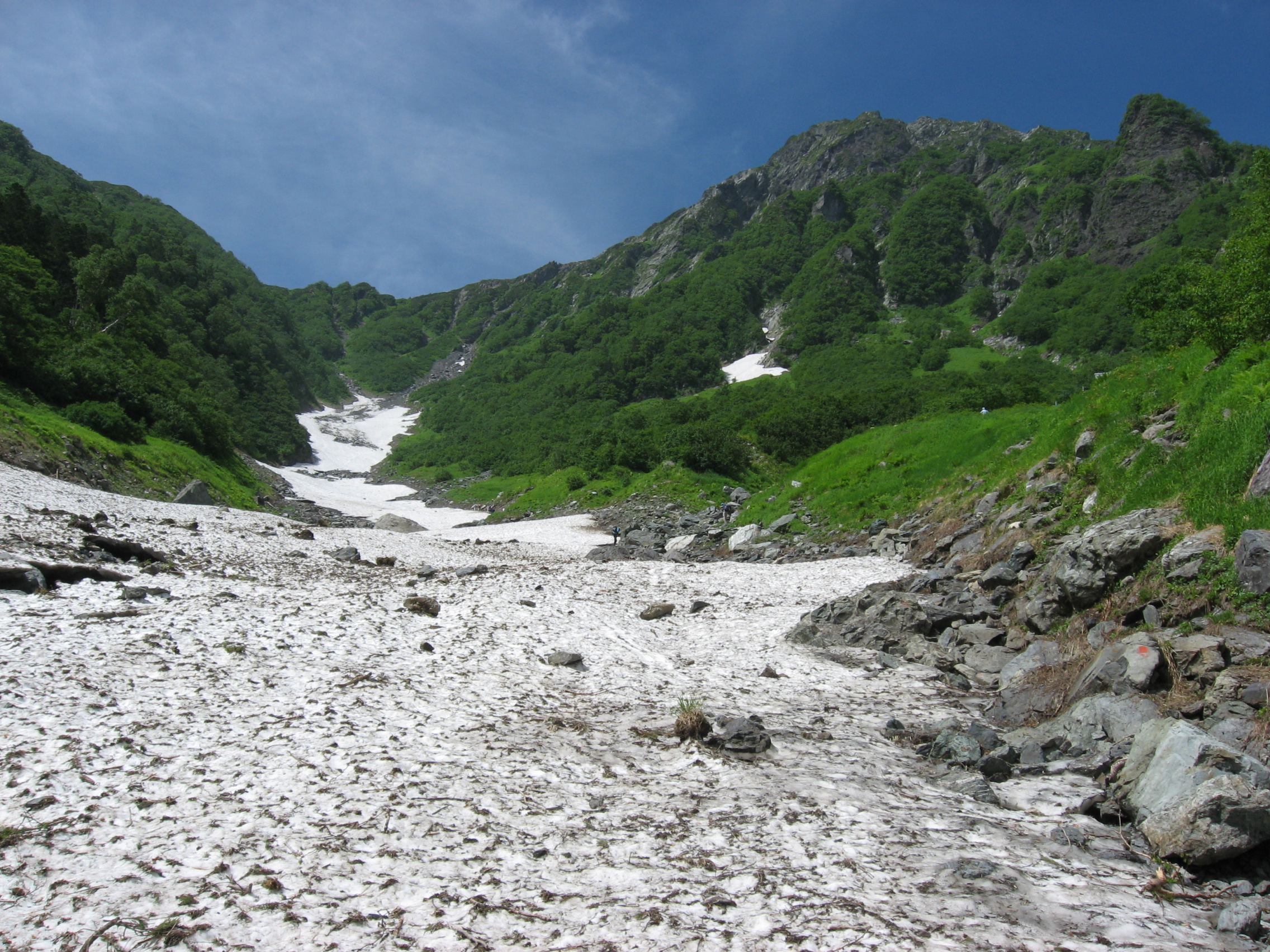 Mount Kita (北岳 Kita-dake) as seen from Ōkamba stream (大樺沢 Ōkamba-zawa), Mts.Akaishi, Yamanashi, Japan.